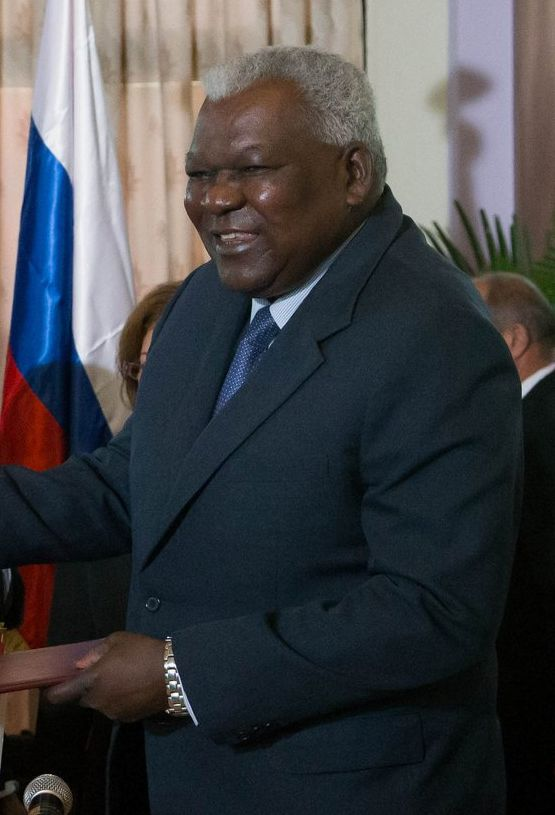 Juan Esteban Lazo Hernández is a Cuban politician, the President of the National Assembly of People's Power